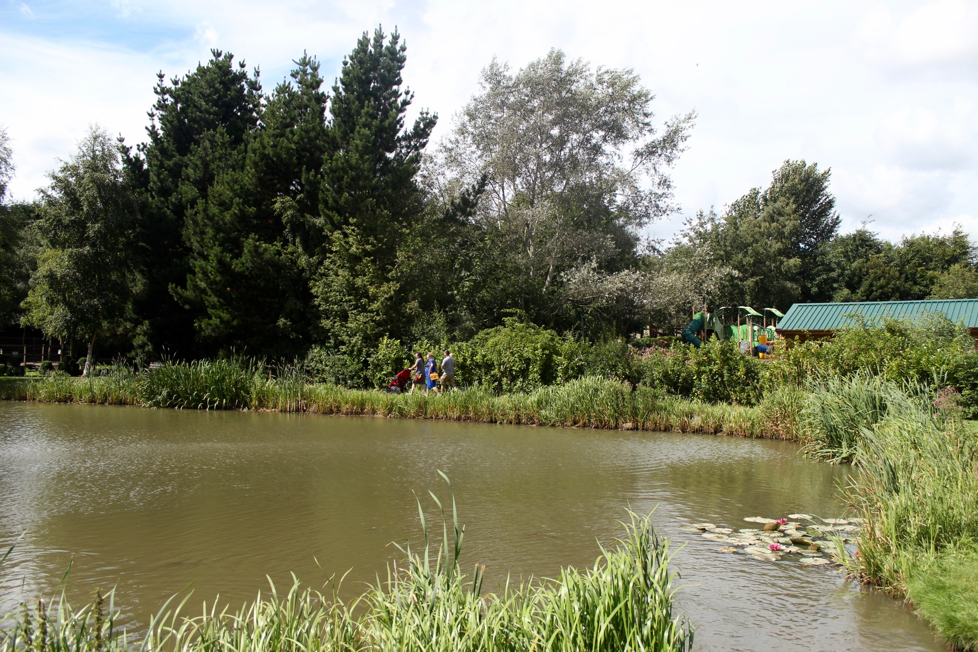 A pond at Ponderosa Zoo in Heckmondwike, West Yorkshire.